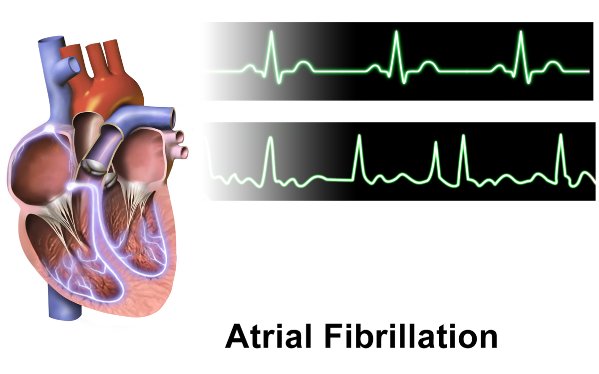 Atrial Fibrillation. See a full animation of this medical topic.